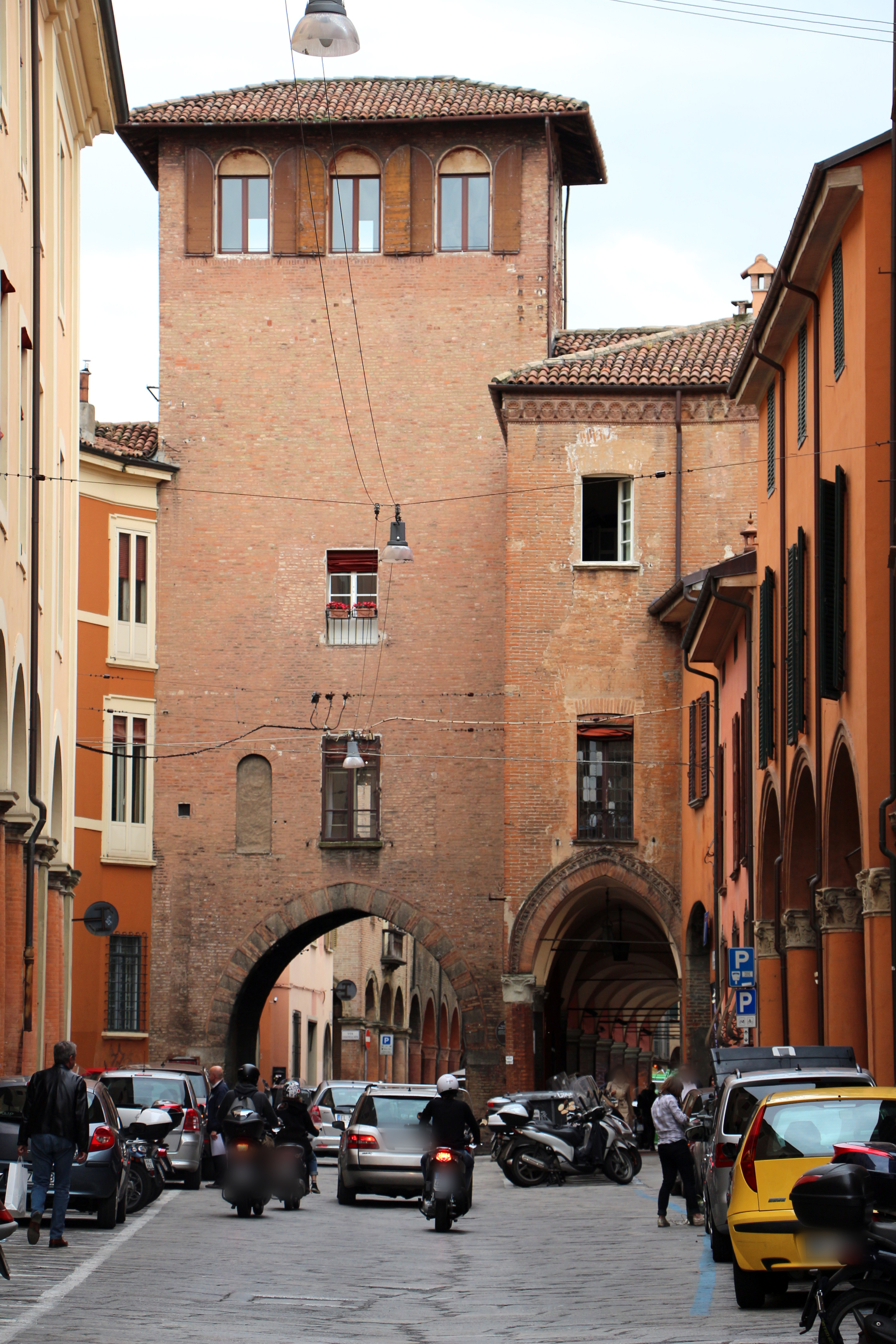 Bologna